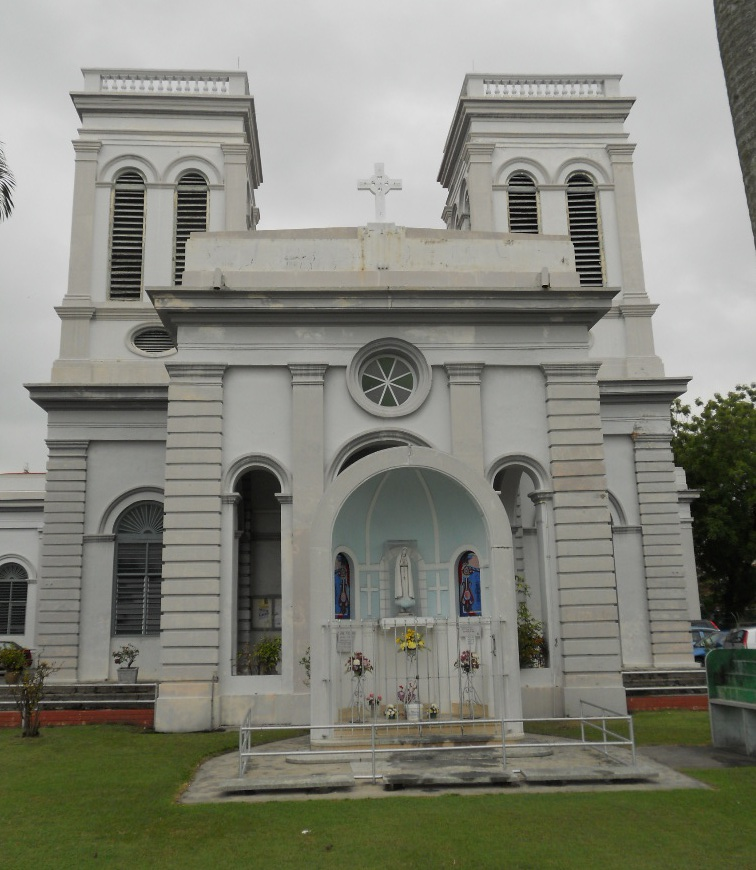 Catholic Church